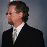 Roger McGuinn at the Astronaut's Hall of Fame 2007